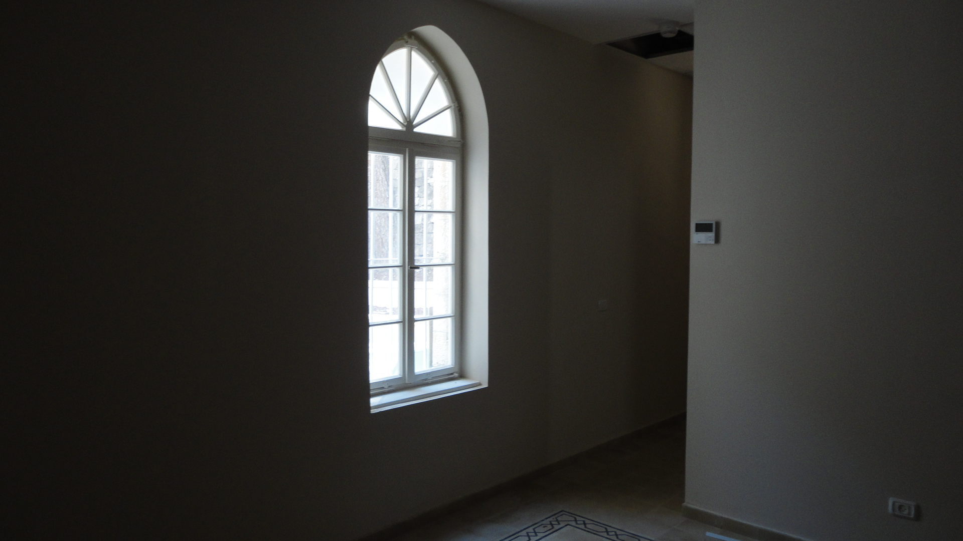 Hermann Struck House, Haifa